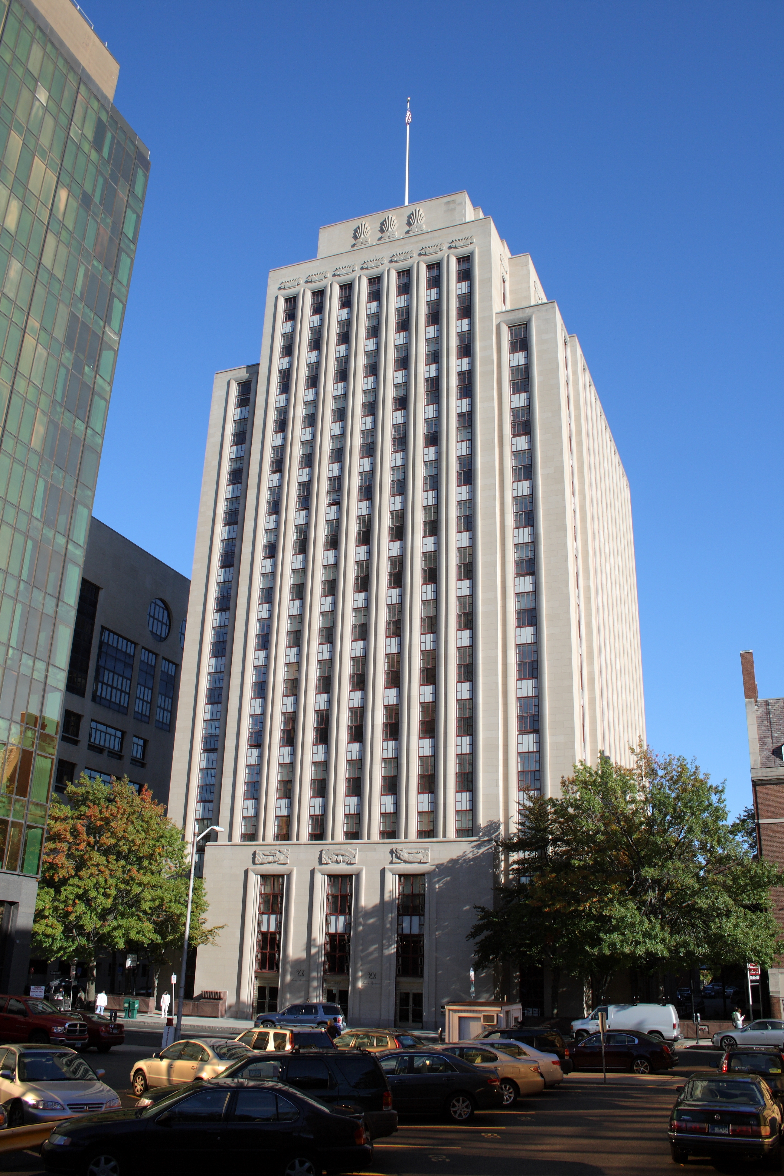 The Southern New England Telephone Company Administrative Building (now an apartment building), 227 Church St., a Registered Historic Place in New Haven, Connecticut.